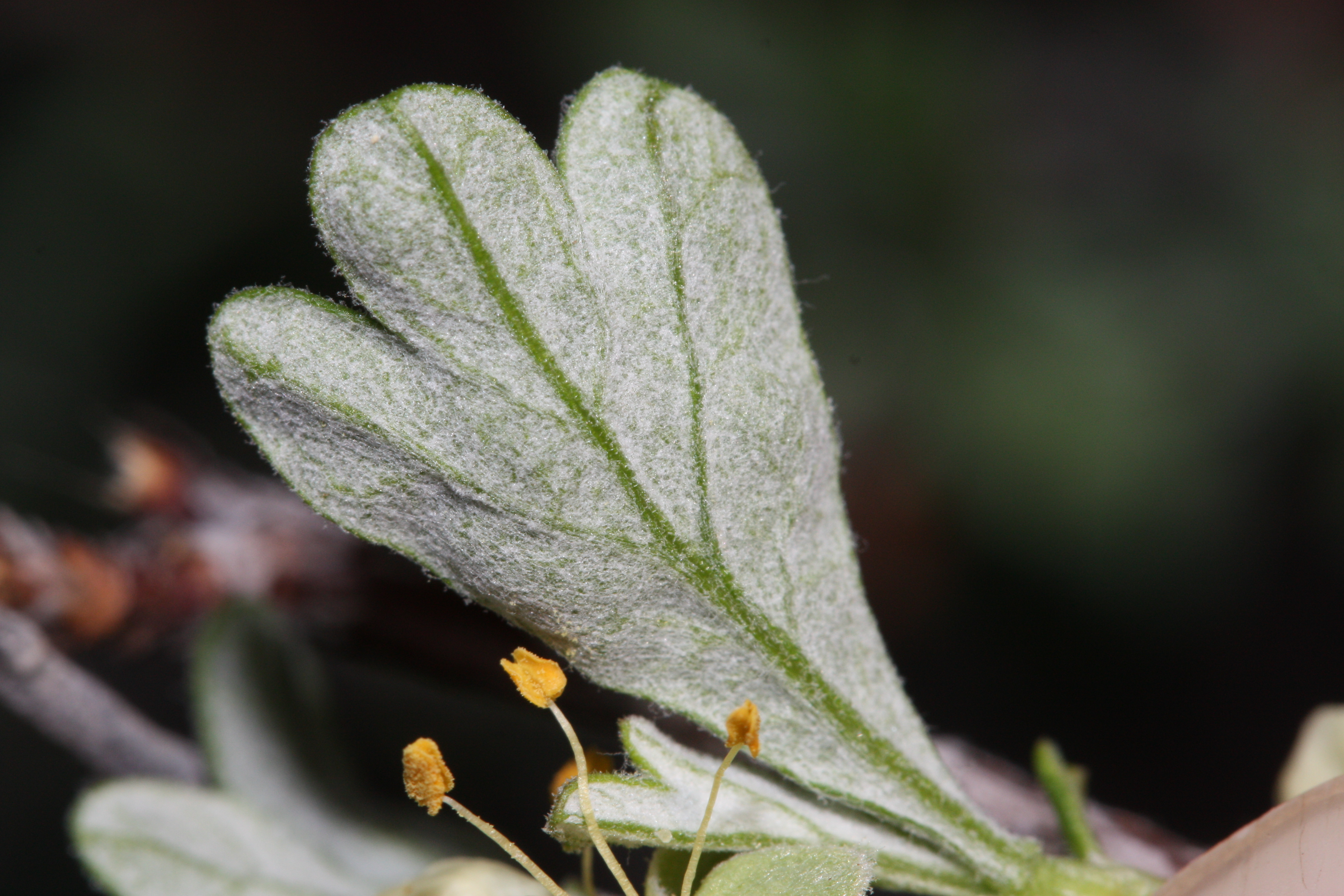 Antelope Bitterbrush, Antelope-brush